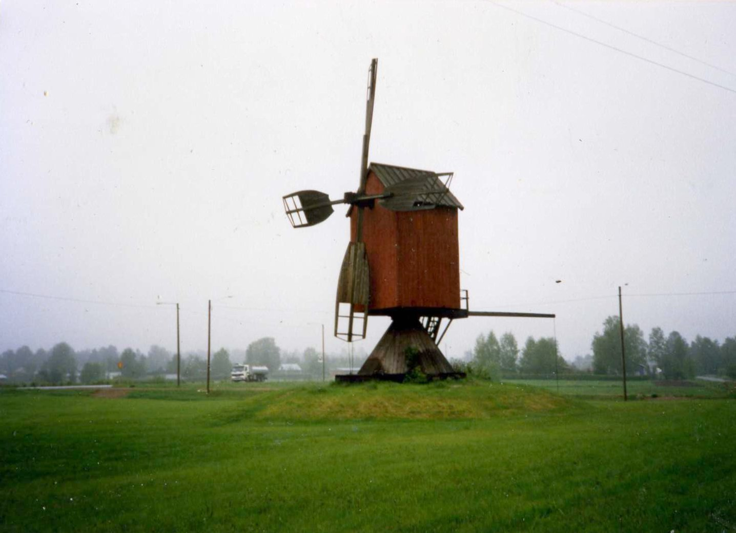 Windmill in Hartola, Finland